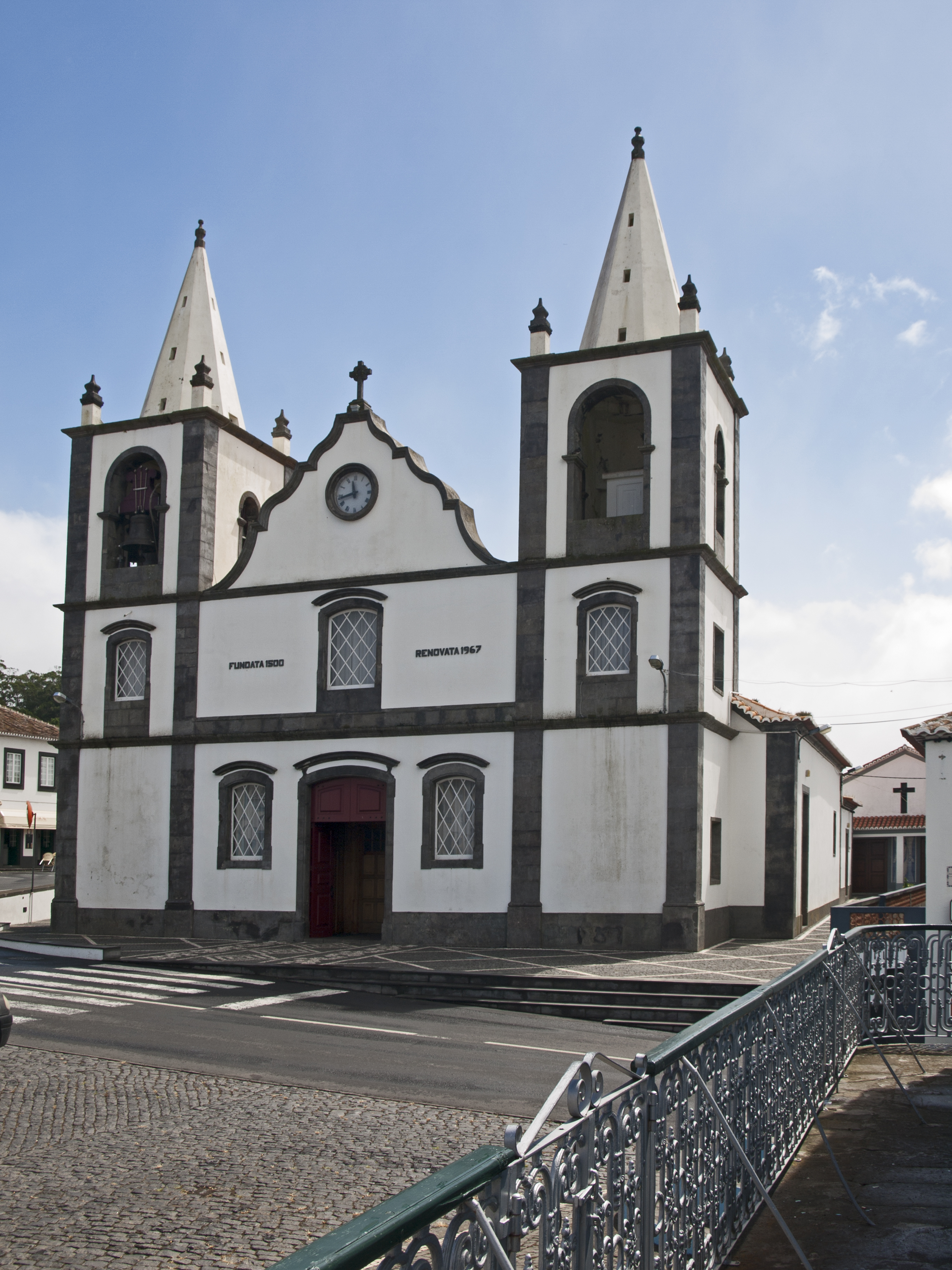 Church in São Bartolomeu de Regatos